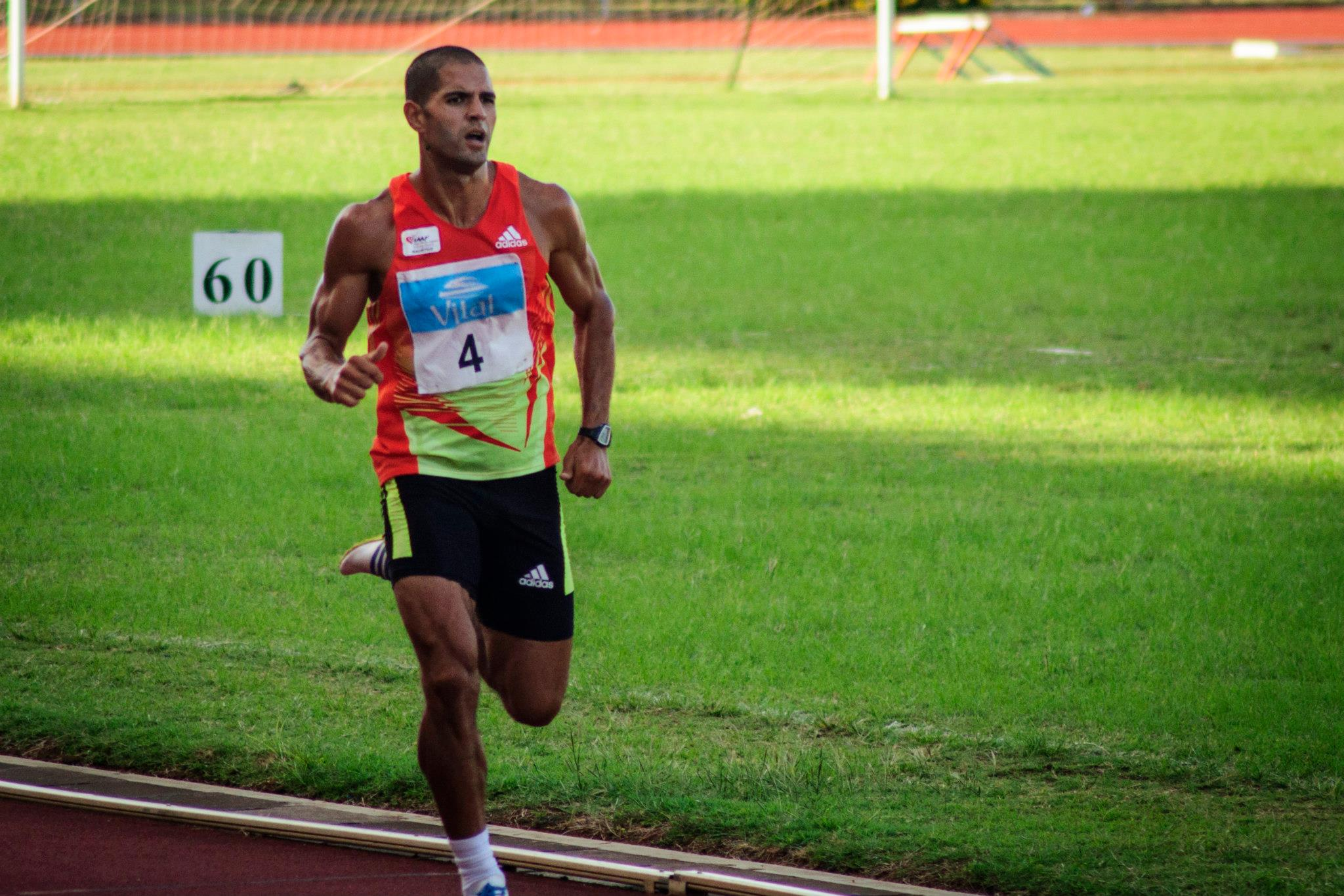 1500m